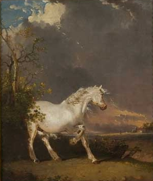 Info from source: James WARD, (London 1769 - 1869 Cheshunt), A horse in a landscape startled by lightning, Oil on canvas, 30.5 x 26 cms